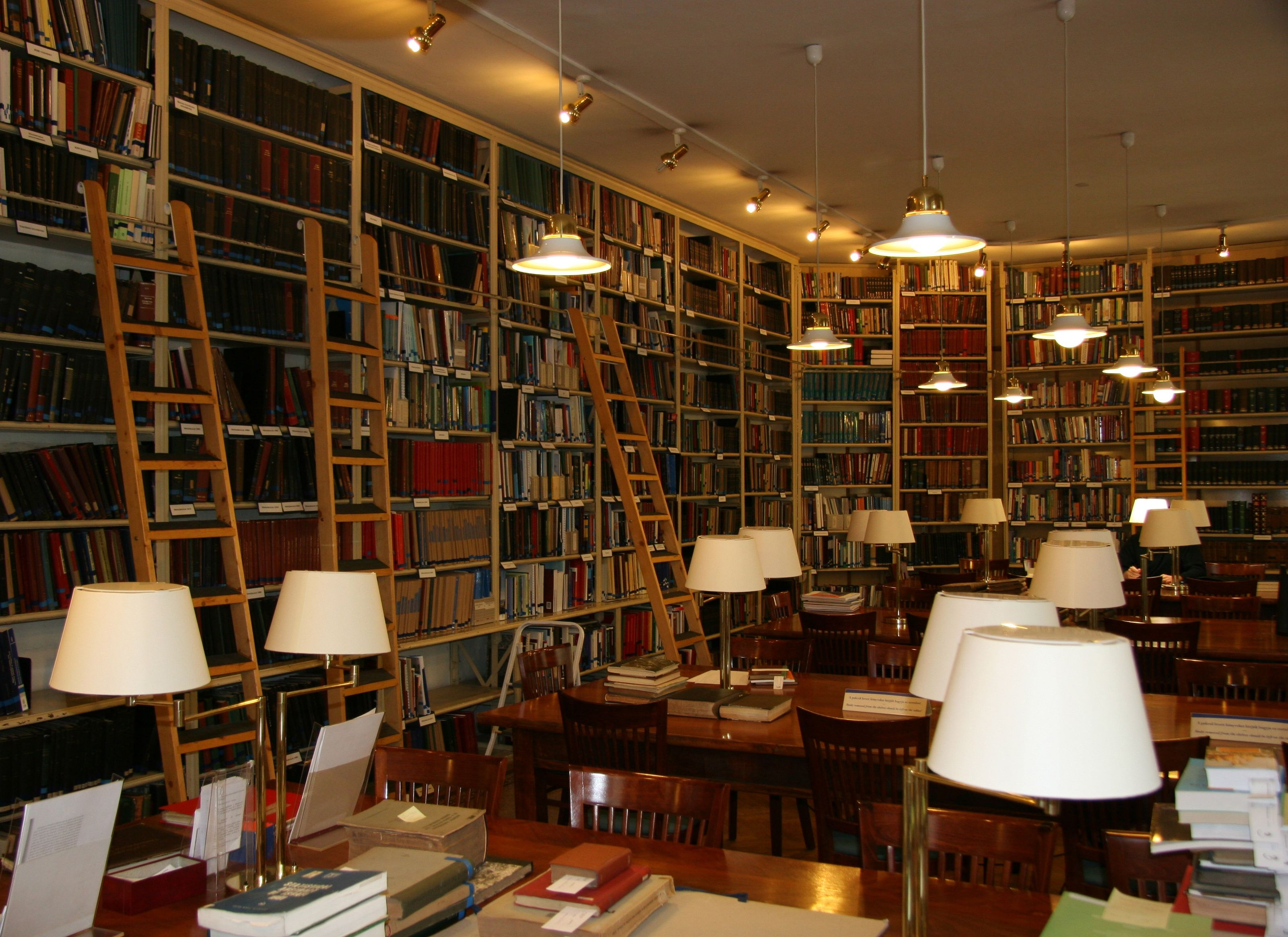 Subject reading room of the HCSO Library